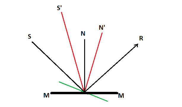 The principle of the heliostat